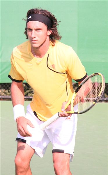 Juan Mónaco at the 2007 Australian Open